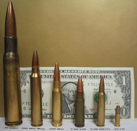 Rifle cartridges - L to R: .50 BMG, 300 Win Mag, .308 Winchester, 7.62x39mm, 5.56 NATO, .22 LR